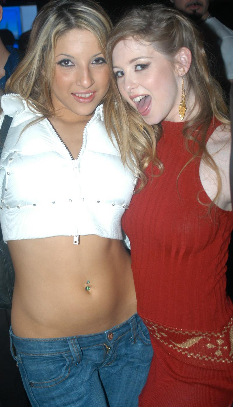 Karina Kay, Sunny Lane at West Coast Productions Party.